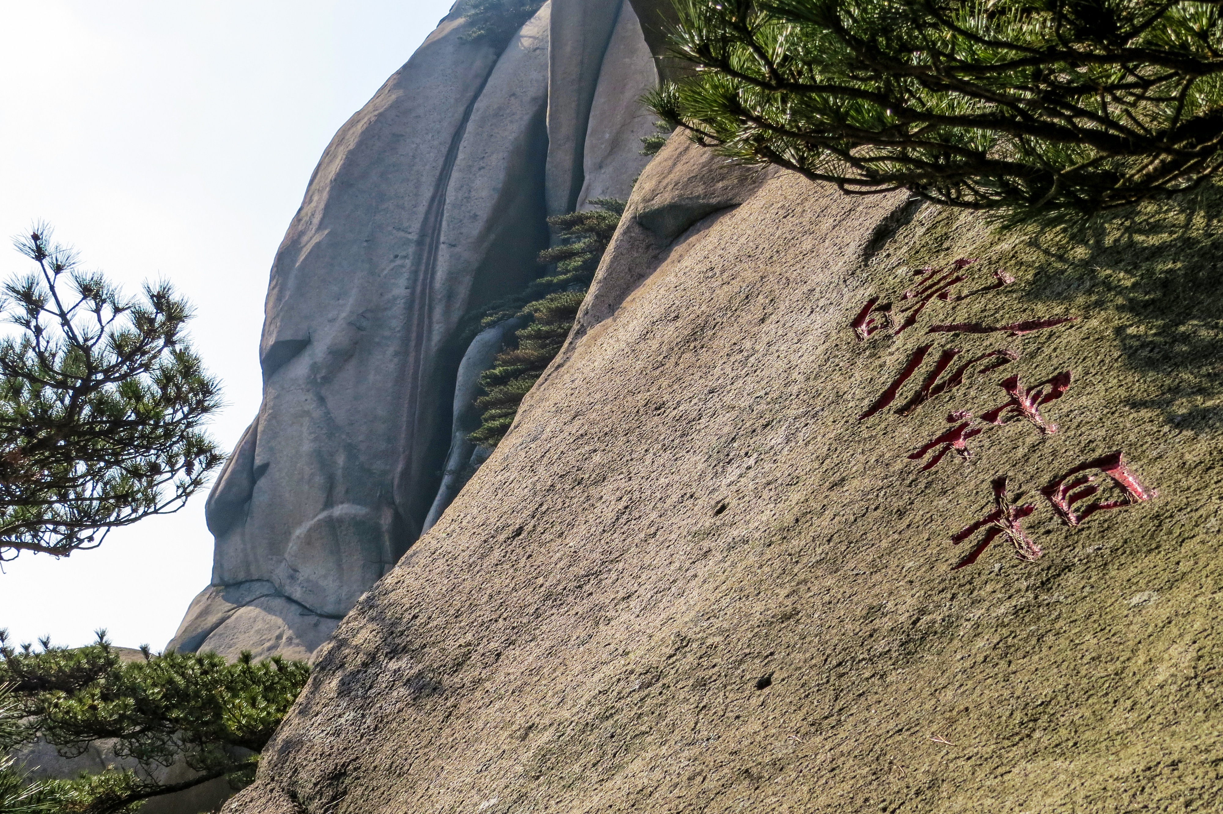 Lord Wan is said to be a governor of this area. I just felt something familiar when checking the photographs: yes, the face in P&G symbol.